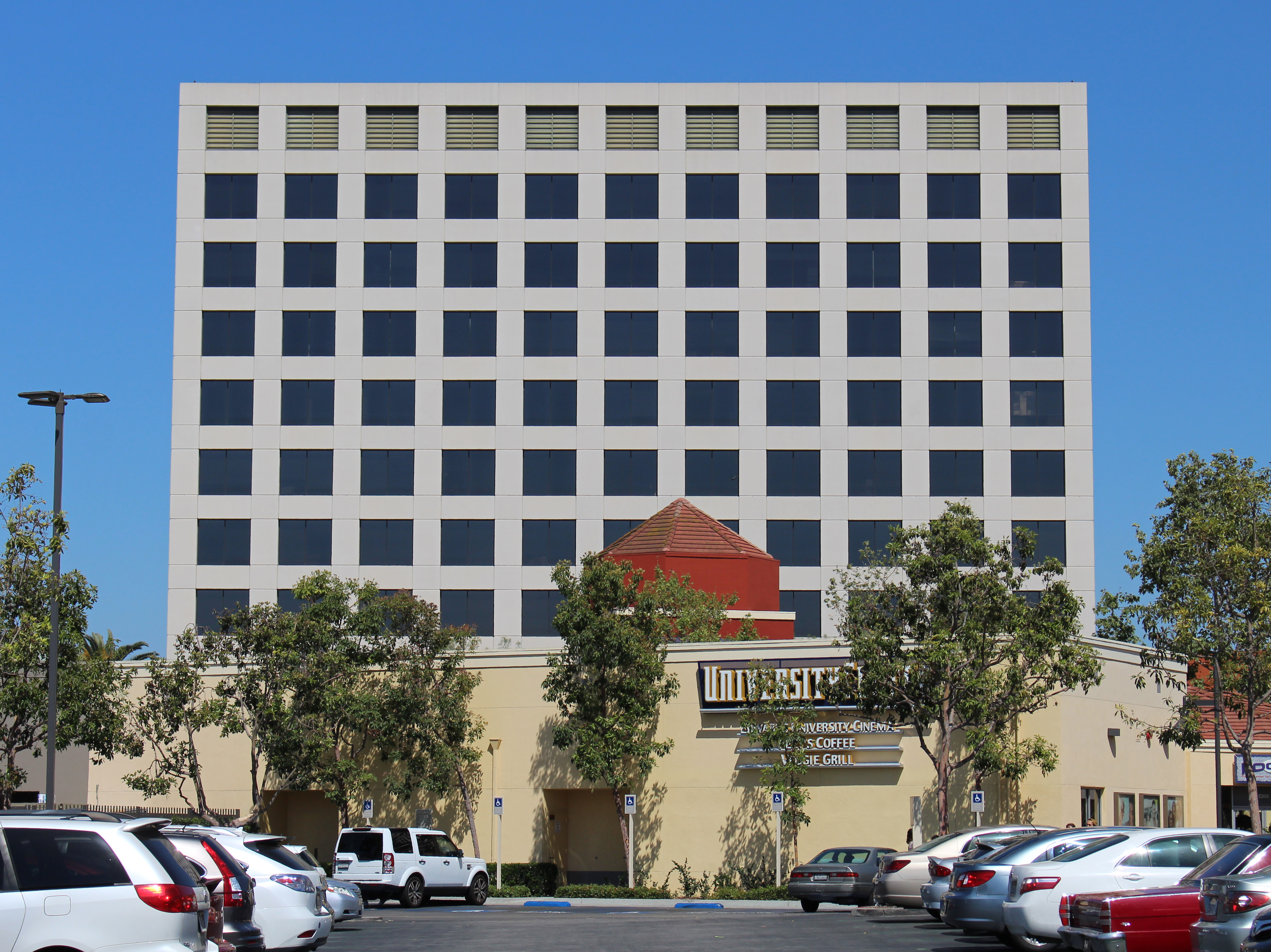 University Tower in Irvine, next to the University of California. This office building is home to the corporate headquarters of In-N-Out Burger. There is also an In-N-Out Burger restaurant in the parking lot, directly behind the vantage point from which this was taken.